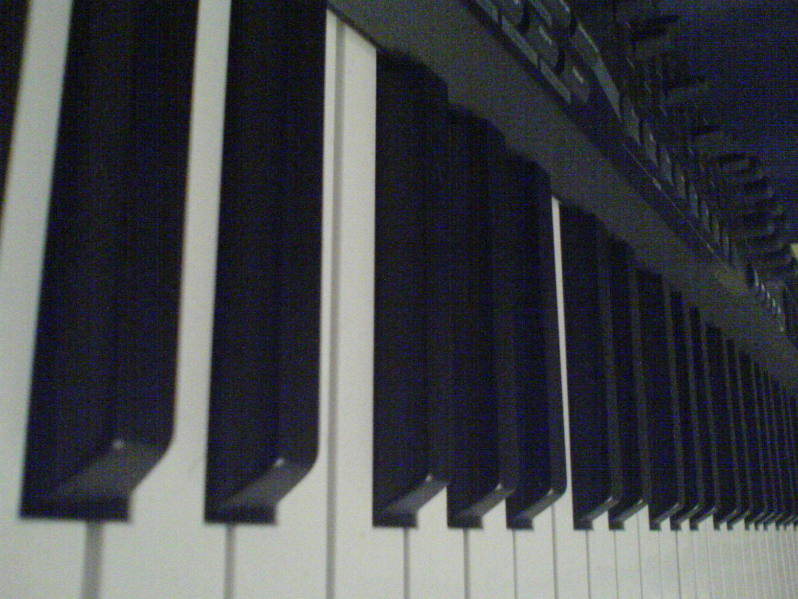 MIDI keyboard controller.